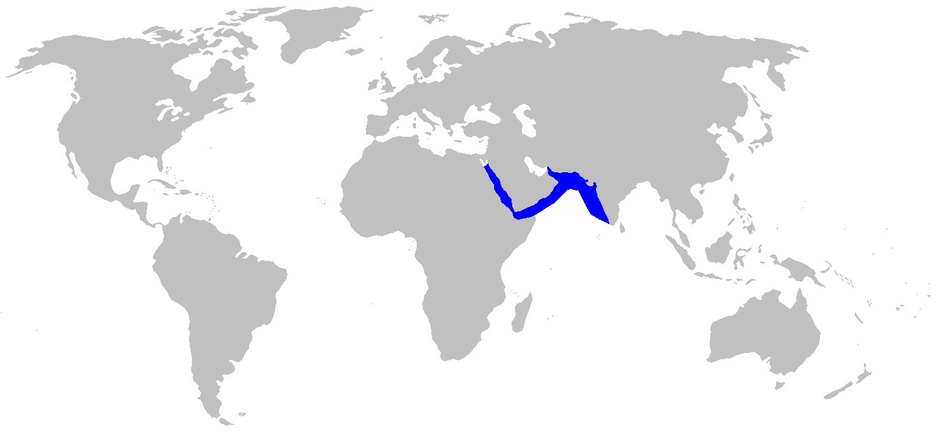 Distribution map for Iago omanensis